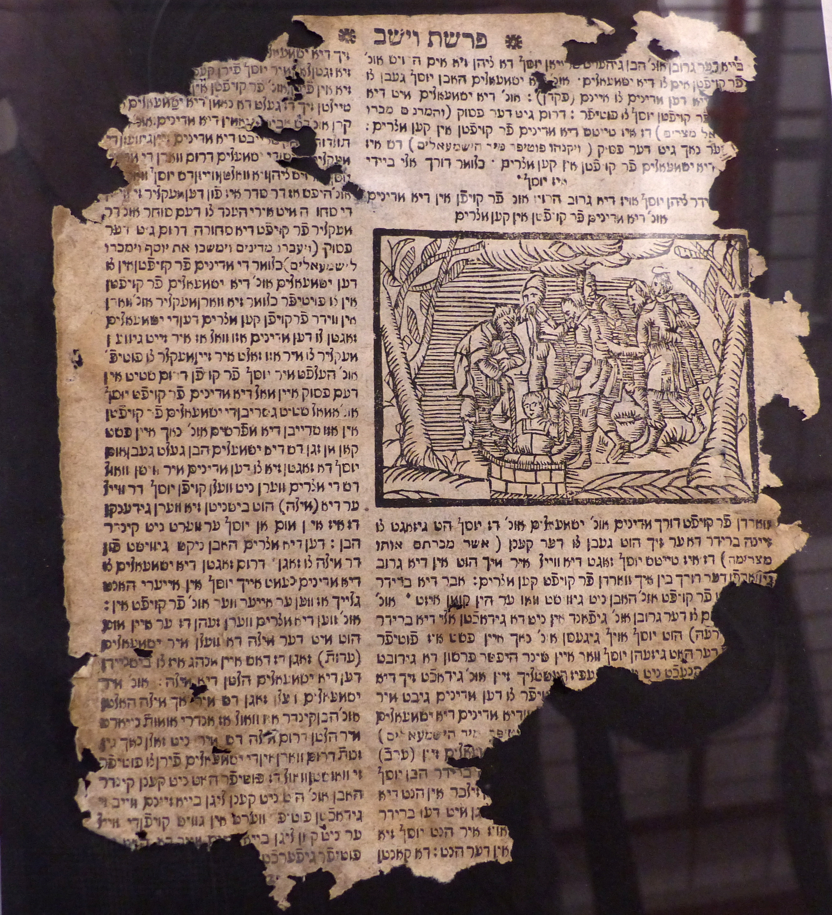 Schwabach ( Middle Franconia ). Jewish Museum Franconia: Fragment ( 1800 ) of the Tze'ena u-Re'ena by Rabbi Jacob ben Isaak Ashkenazi showing Joseph in the pit; from the Genizah of the synagoge in Schwabach.